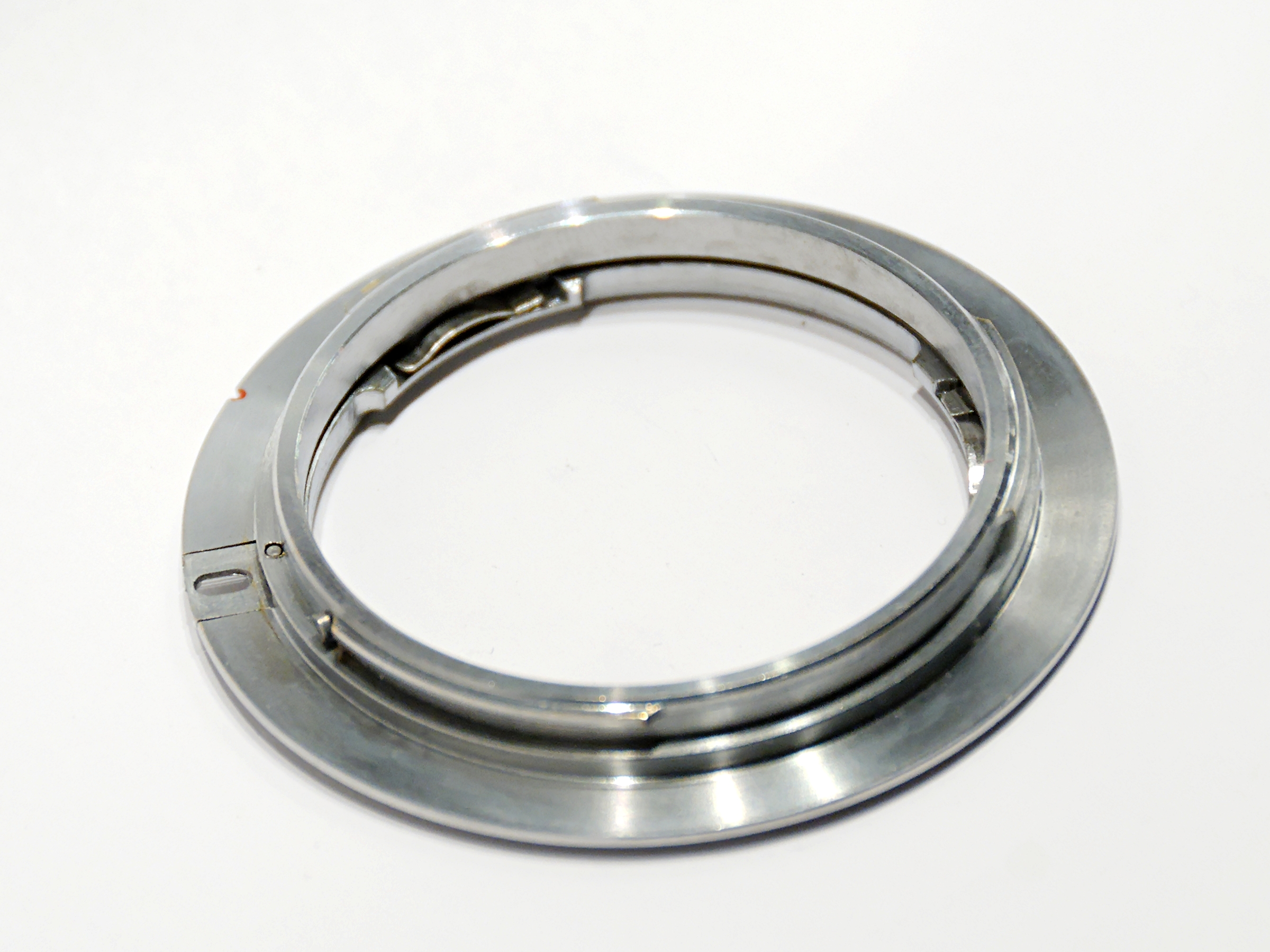 A Nikon F lens adapter ring for Canon EOS.